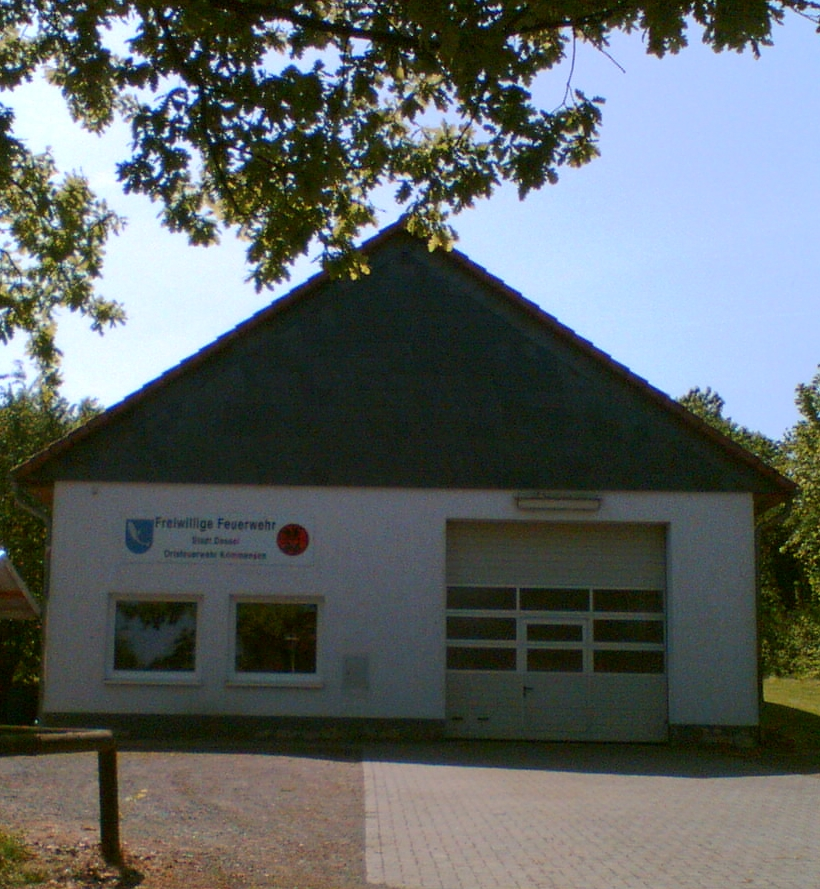 fire station in Krimmensen Germany